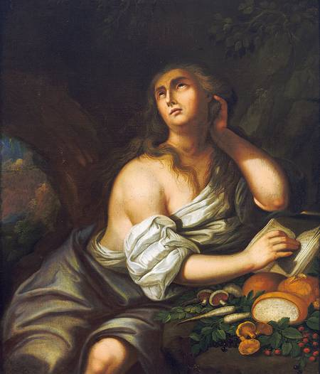 Genevieve of Brabant in the forest seclusion